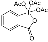 Chemical structure of Dess-Martin periodinane